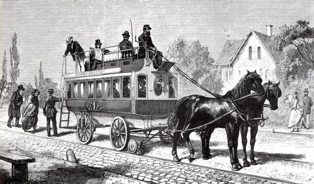 Adolph Keifler's horse-drawn tram from 1872. The two small wheels in the front could be used for lifting the carriage off the tracks